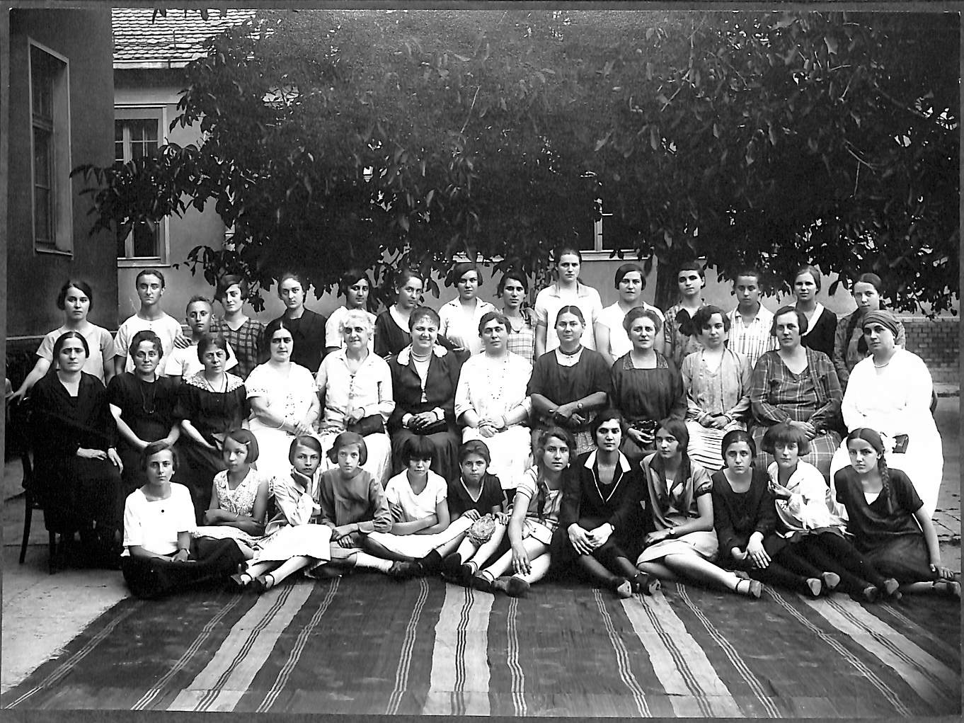 Members of the Charity Cooperatives of the Serbian from Pančevo with the students of the women's school